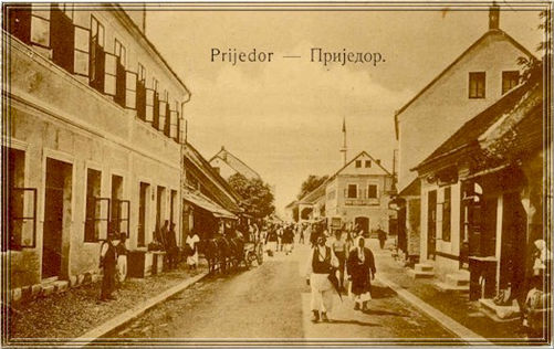 Old postcard of Prijedor